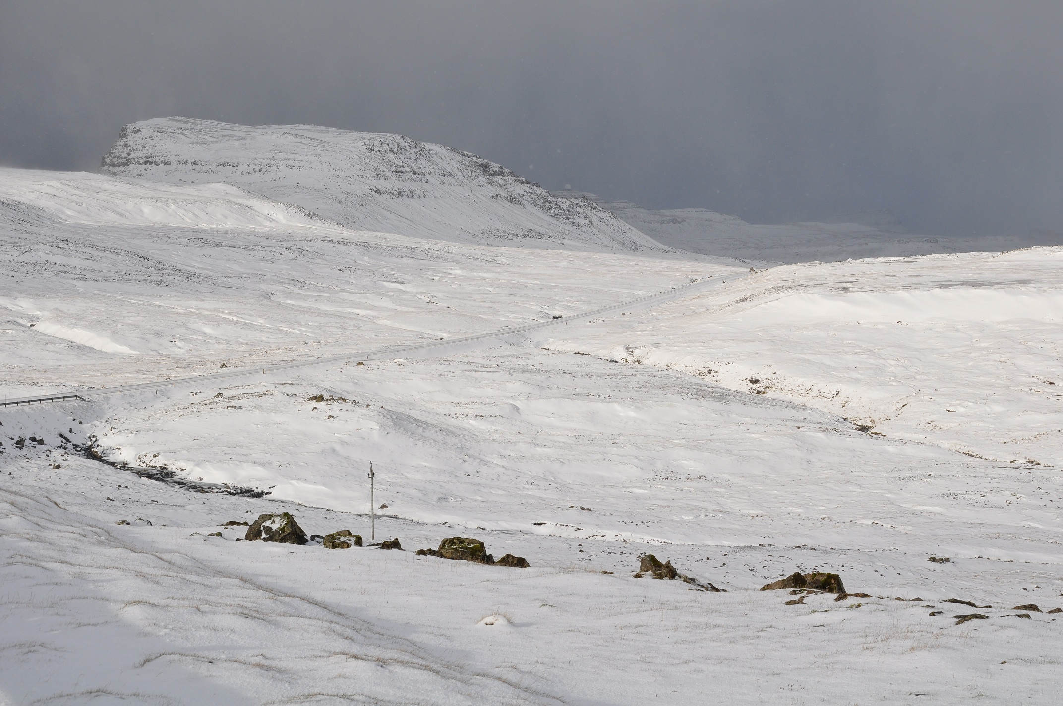 The central highlands of Streymoy (Faroe Islands) in winter, crossed by mountain road No. 10 (Oyggjarvegur). The mountain on the left is Stiðjafjall (547 m). On the horizon, in the centre, the radar dome on Sornfelli (749 m) can just be seen.